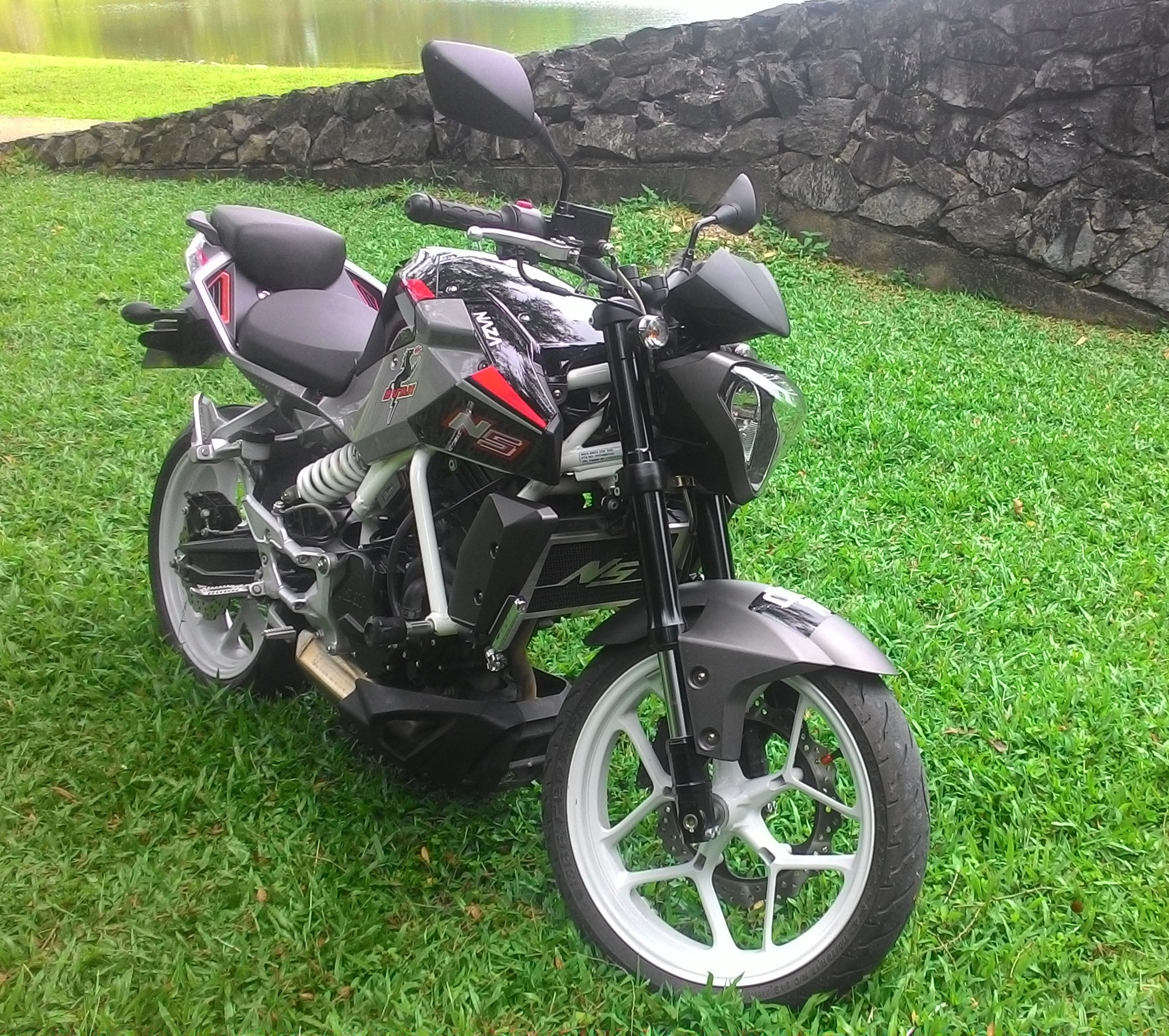 GD250N